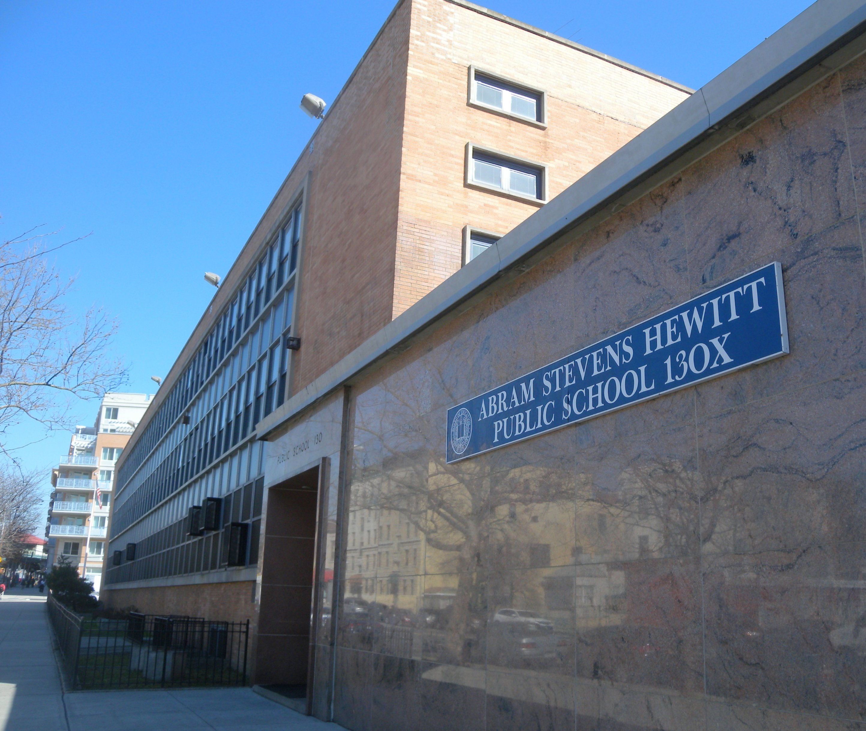 Looking northeast from Prospect Avenue at PS 130X on a sunny midday.